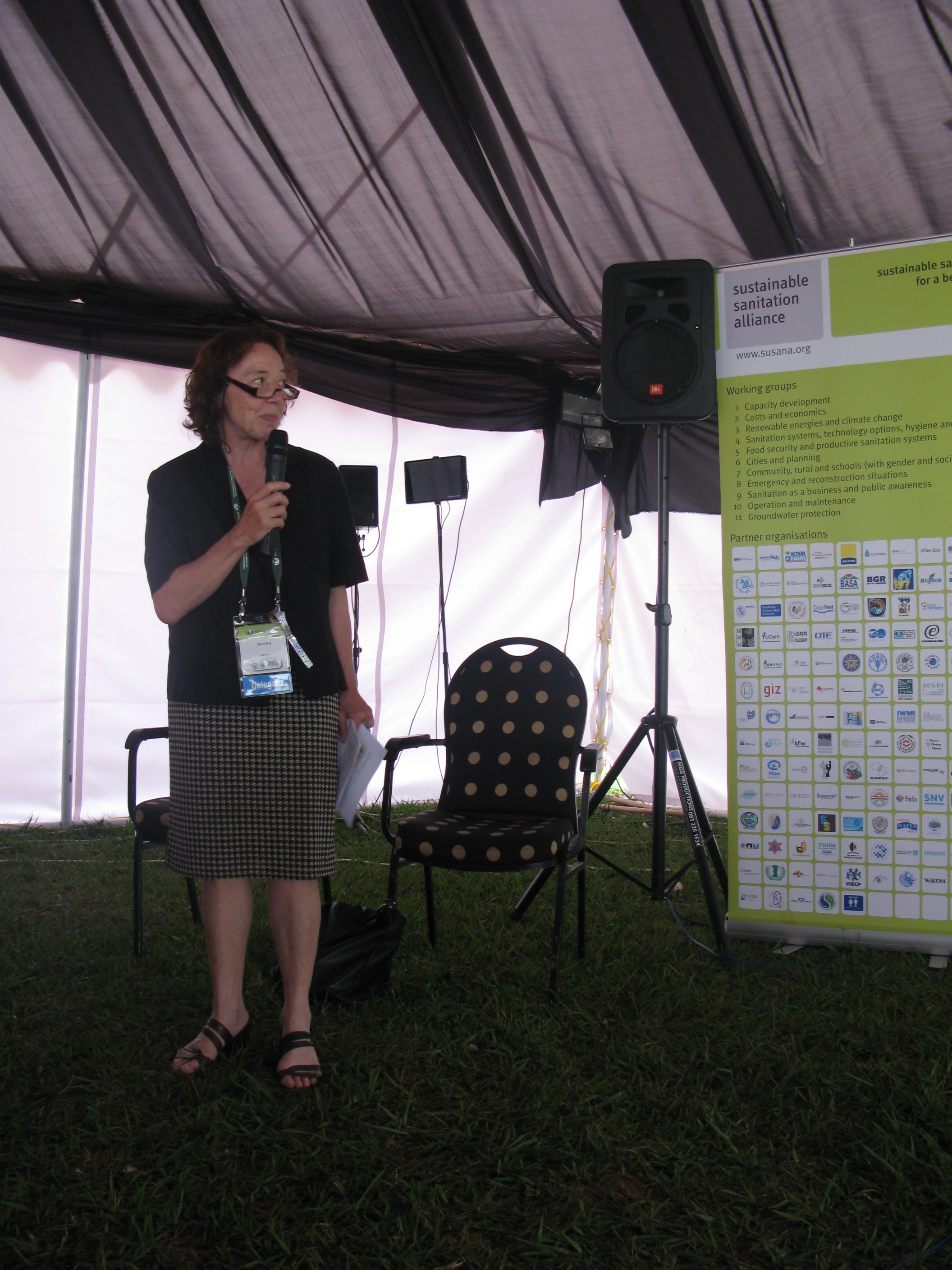 At UNSGAB seminar "Sustainable Sanitation: the drive to 215" Photo by: E. von Muench July 2011